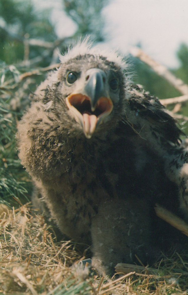 A chick of the White-tailed Eagle (Haliaeetus albicilla) in Cherkasy region, Ukraine at mezoptil plumage